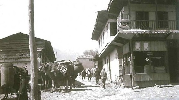 Bayramyeri Meydanı 1880